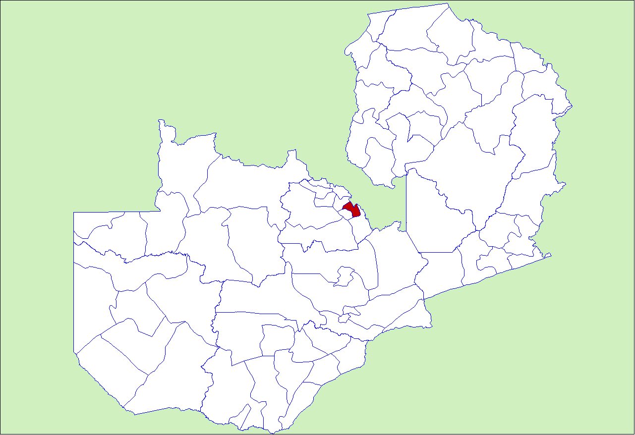 District locator in Zambia